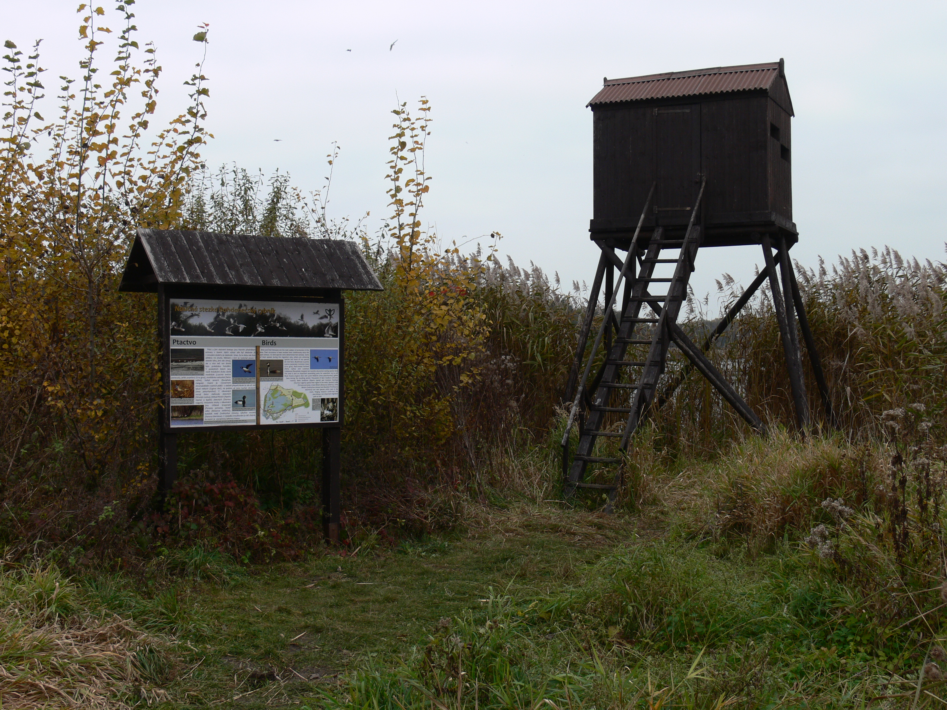 NPR Bohdanečský rybník photo